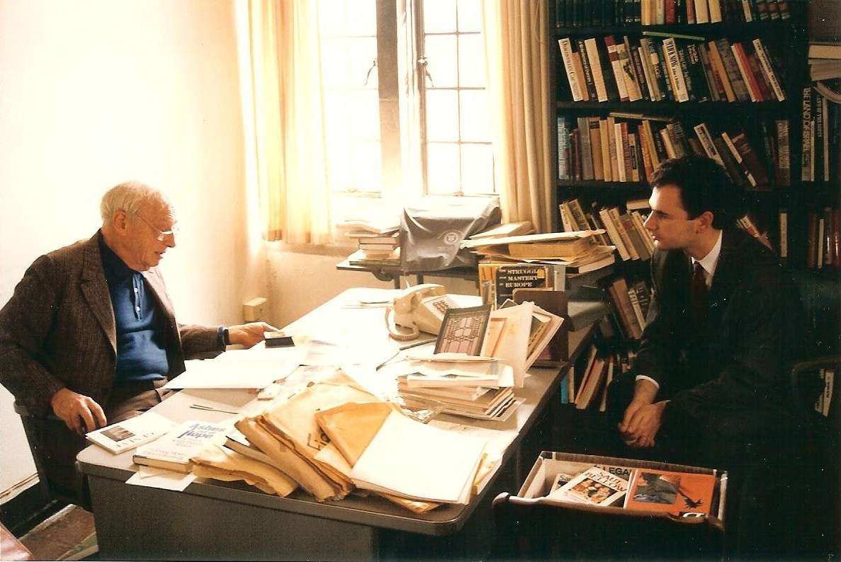 Photograph taken during the Stojanovic's interview with Saul Bellow at the University of Chicago.